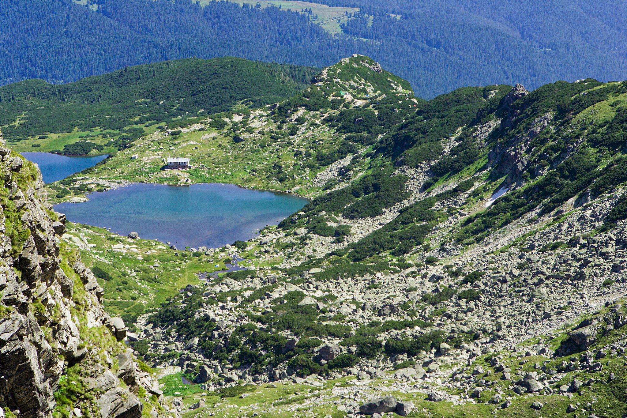 Ribnoto lake, Rila mountain, Bulgaria